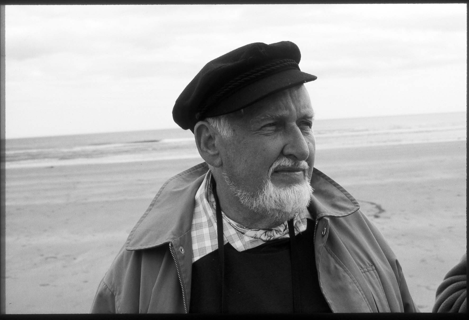 George Waring Actor on holiday in Ireland c1998